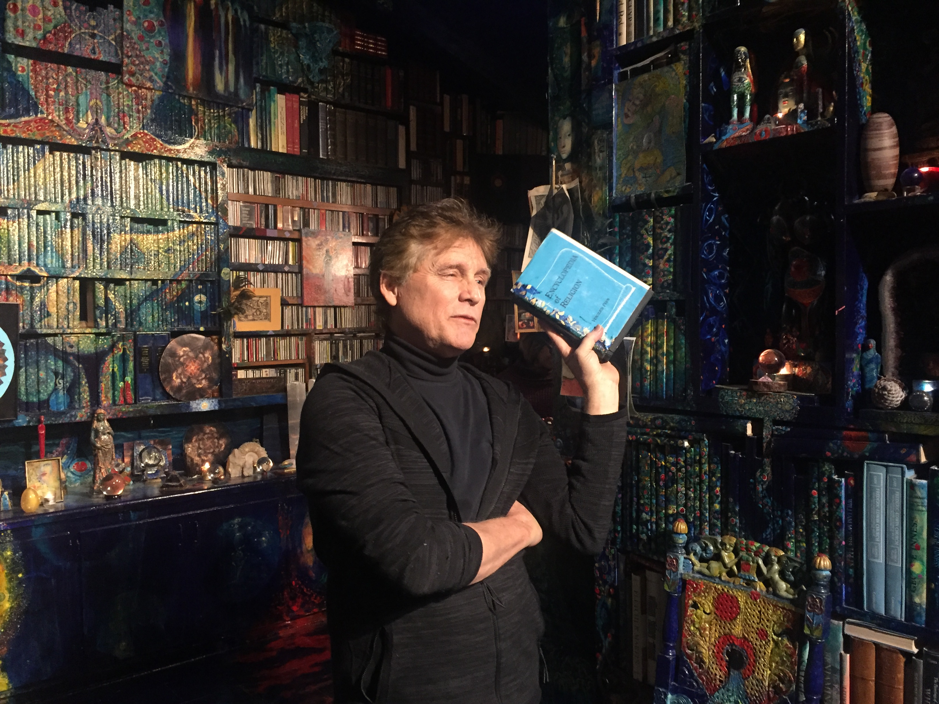 Visionary painter Leigh McCloskey giving a tour of his art installation The Hieroglyph of the Human Soul